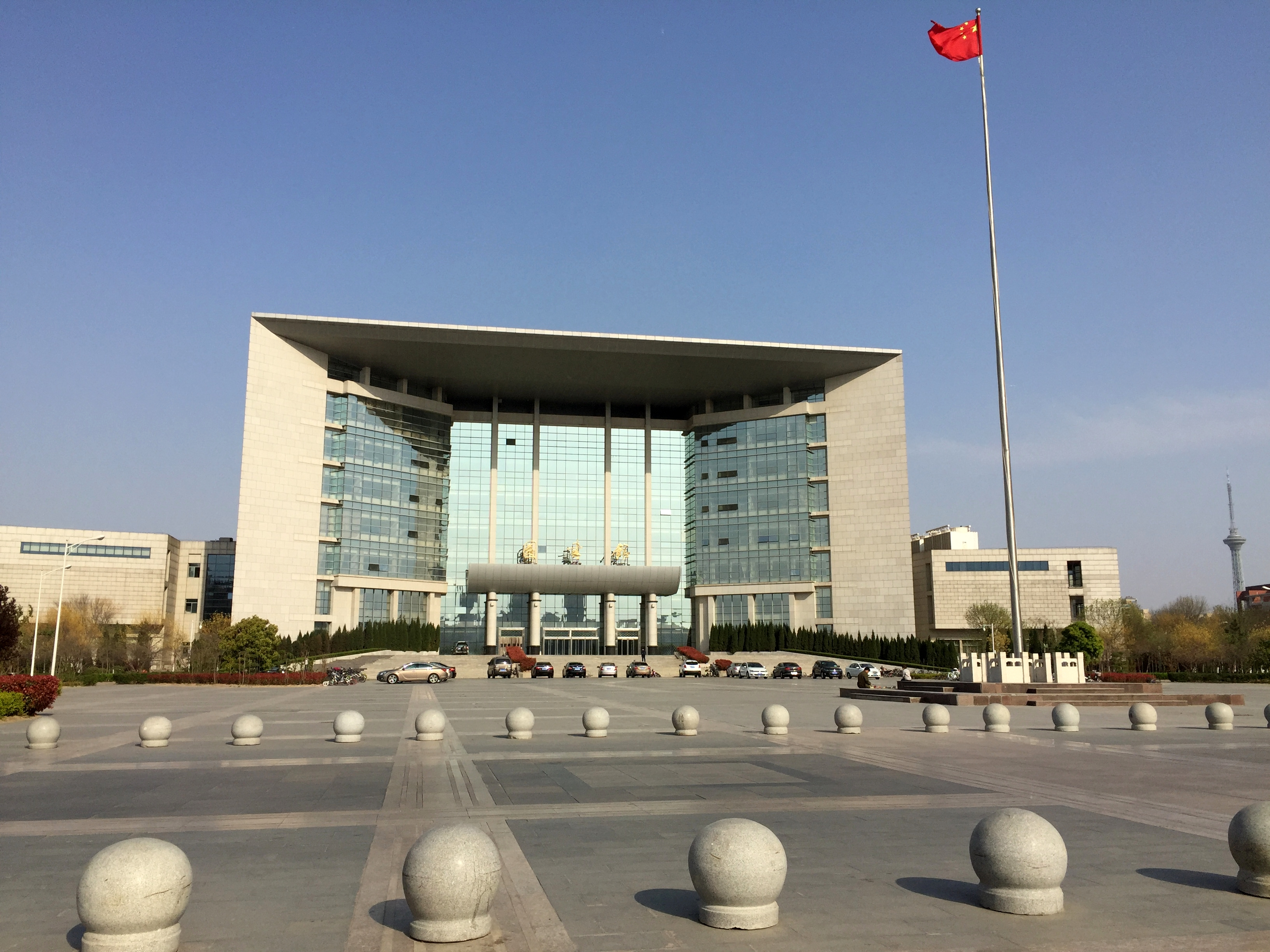 the new library of HENU